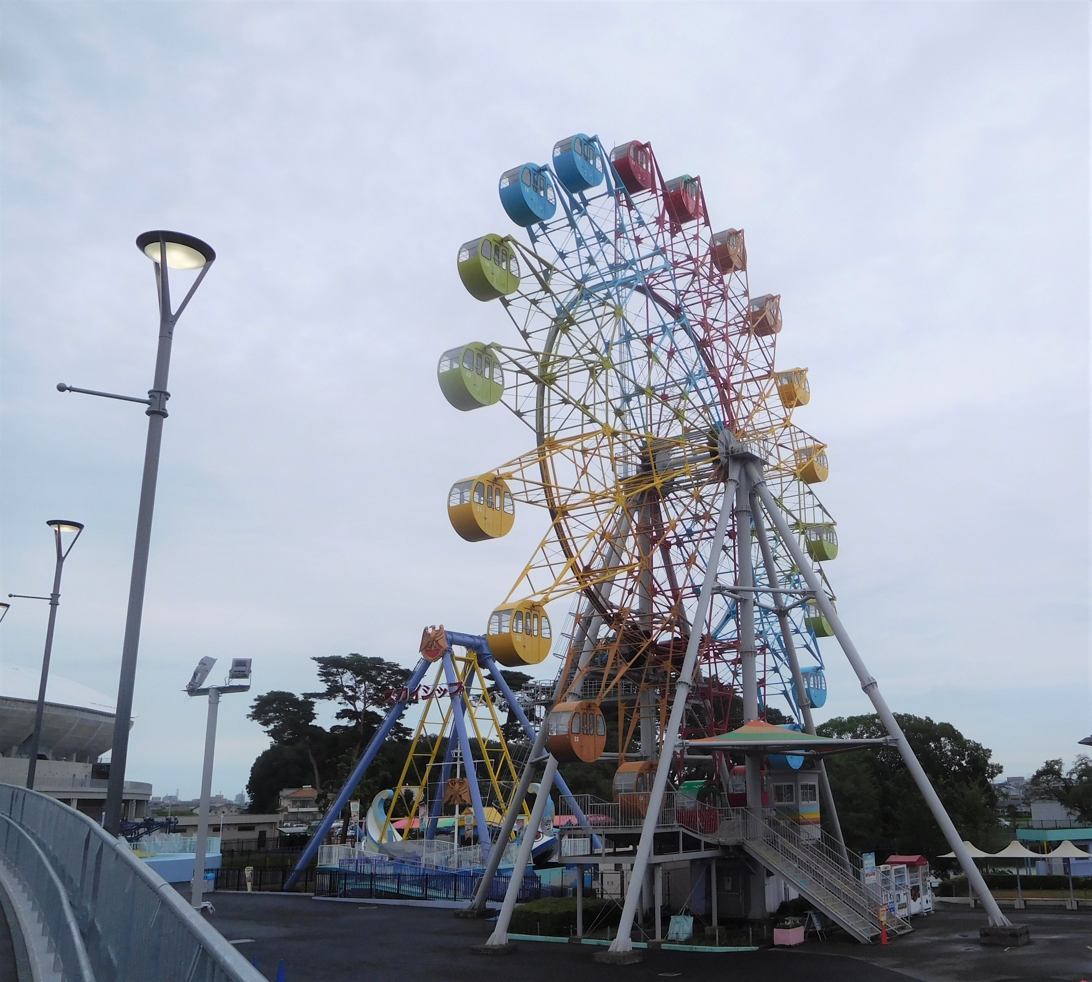 This is the big ferris wheel of Tochinoki Family Land in Utsunomiya, Tochigi, Japan.